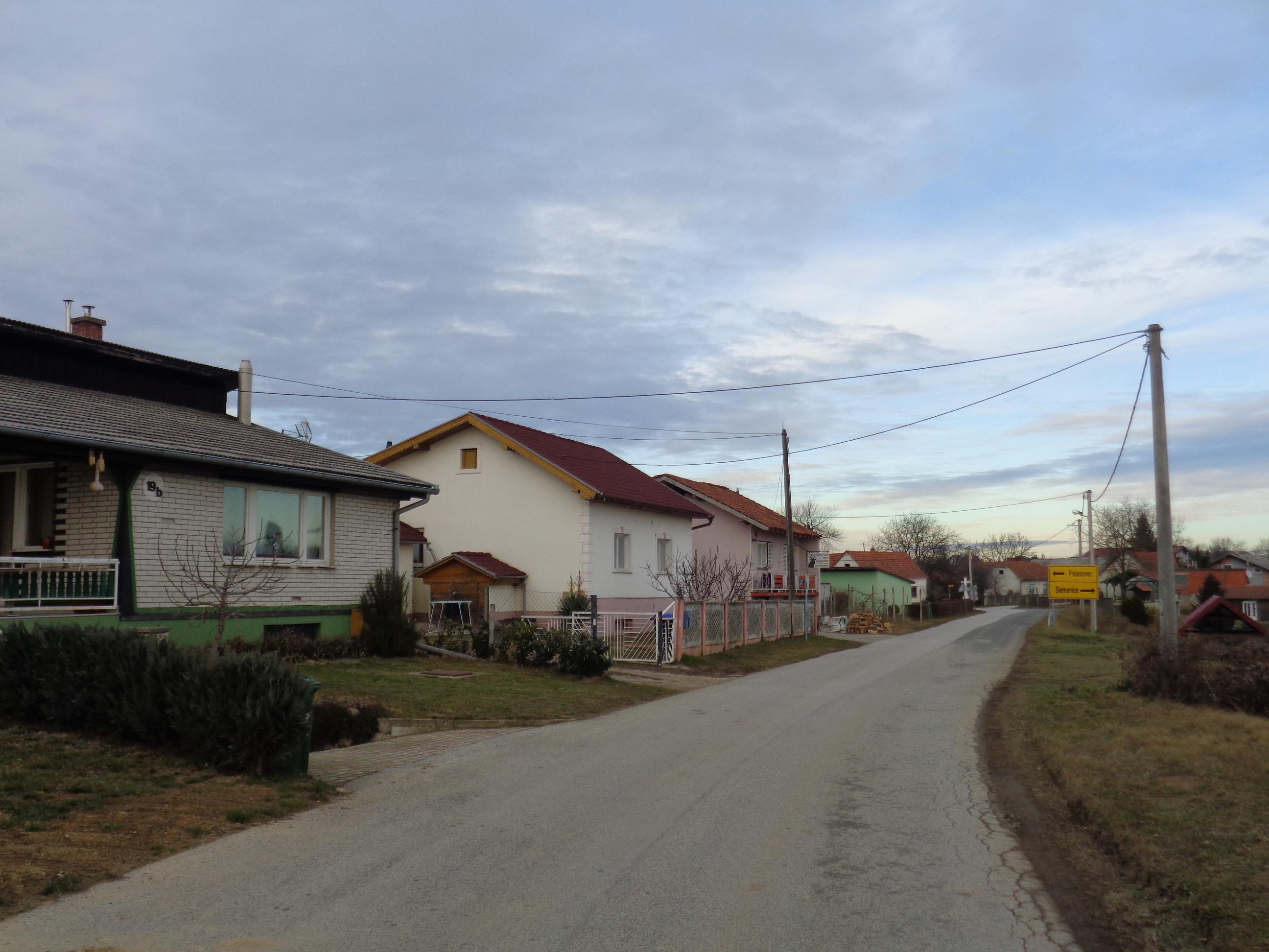 Zasadbreg (Međimurje County, Croatia) - houses along the village street